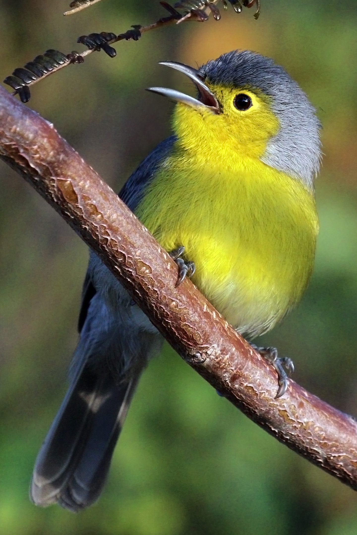 Oriente warbler (Teretistris fornsi), Cayo Romana (Cayo Coco), Cuba